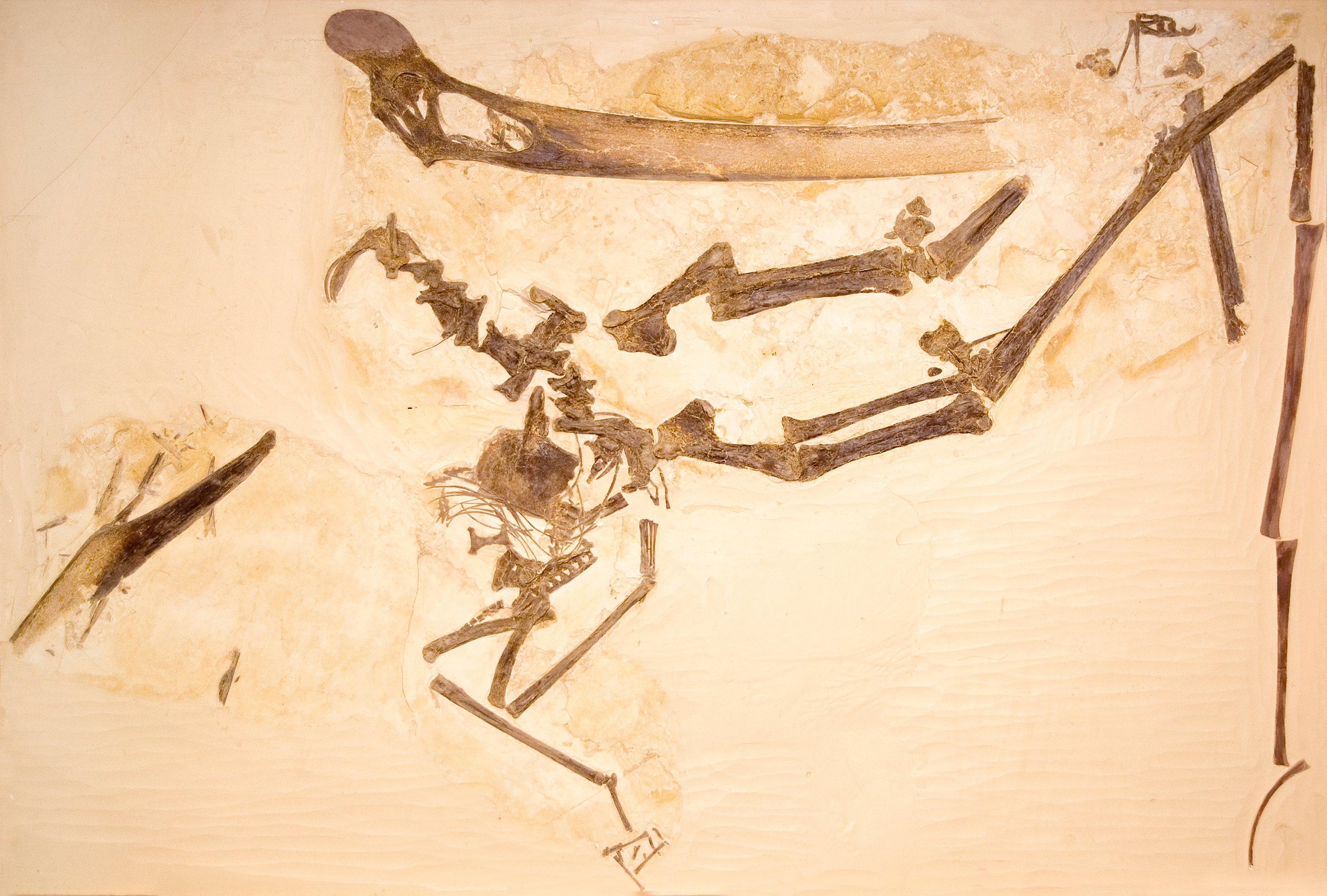 Photograph of UALVP 24238. Cranial crest and wing phalanges 2-4 of the left wing have been reconstructed with plaster and paint (on the right side of the photograph), as well as metatarsals of the left foot.